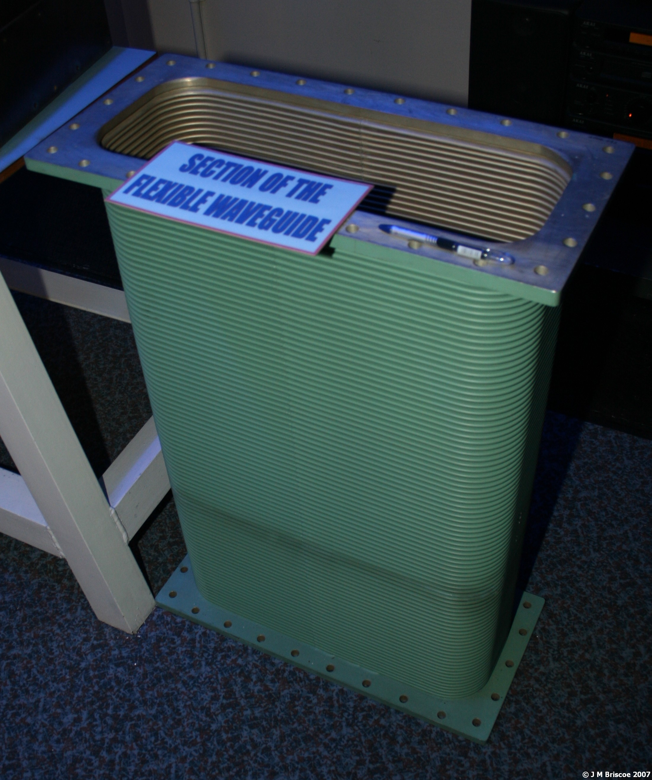 Section of flexible waveguide at RAF Air Defence Museum Pen used to indicate scale